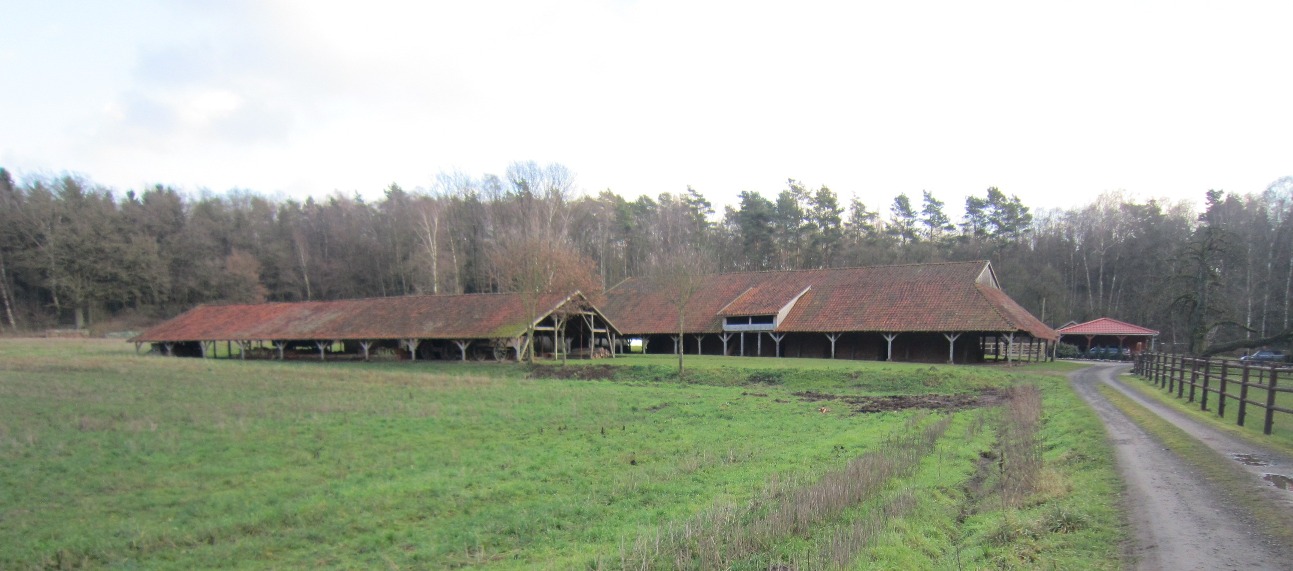 Old brickyard Stölting in Damme (Dümmer)